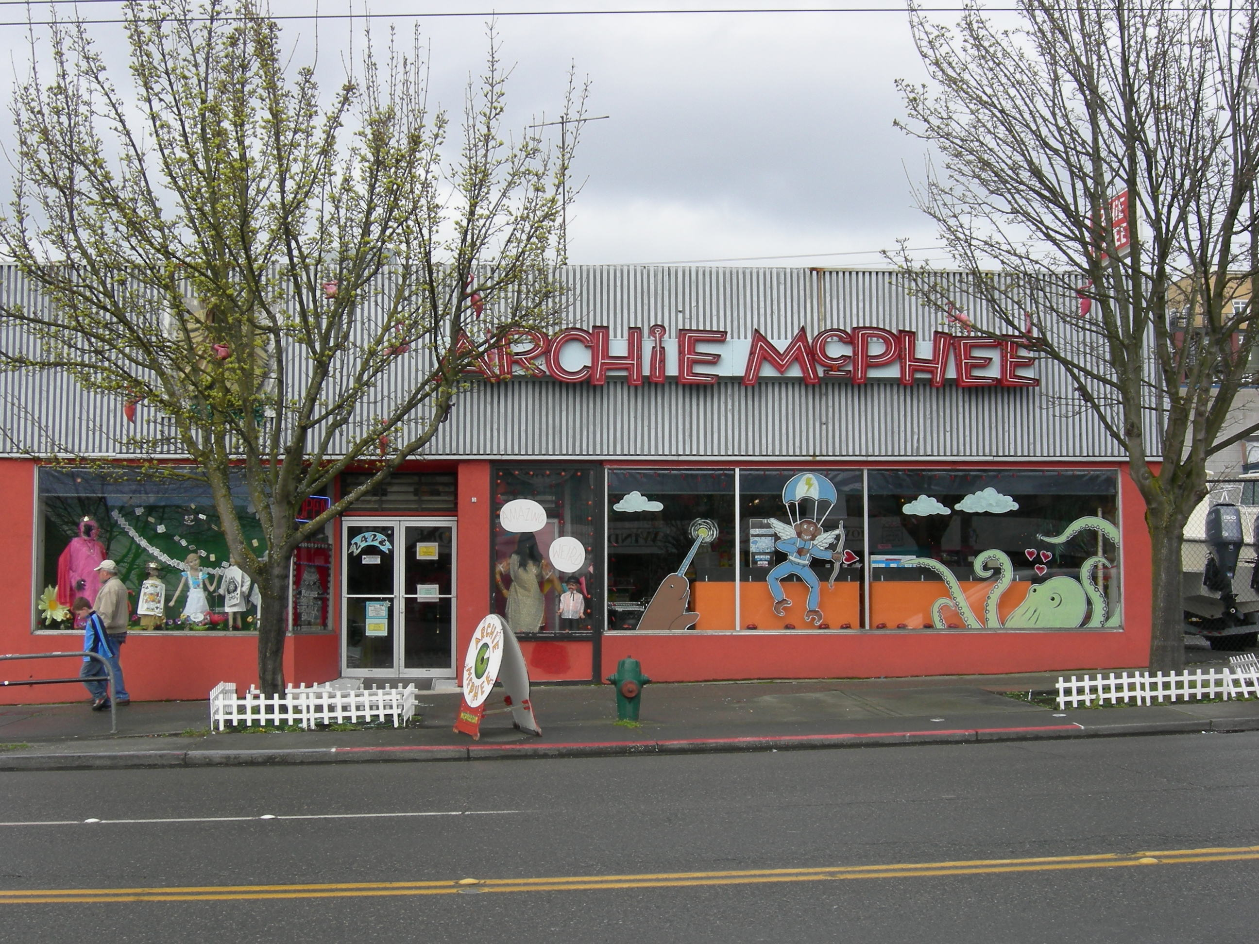 Exterior, Archie McPhee store, Ballard, Seattle, Washington.